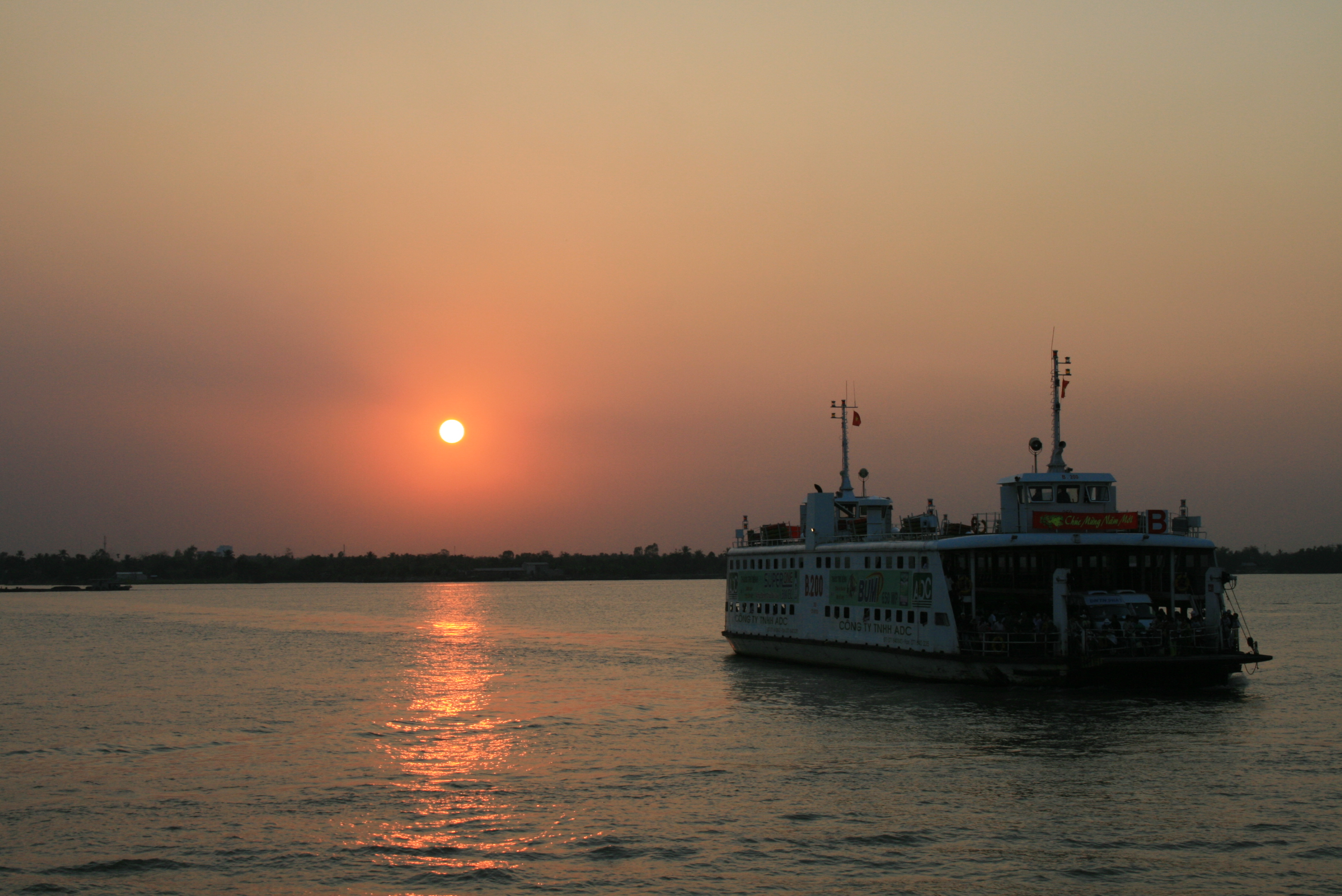 A sunset on the Mekong River.